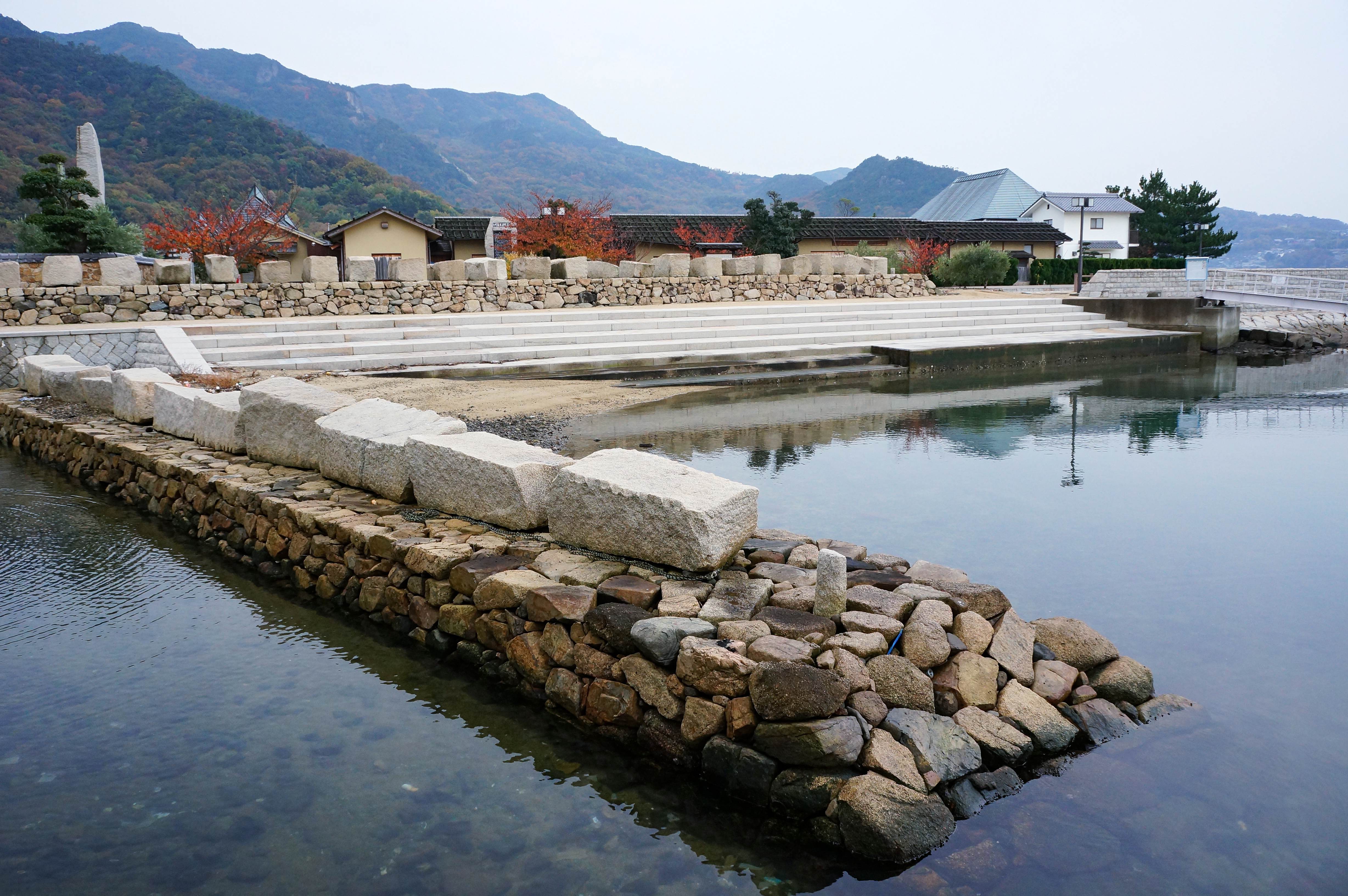 "Stones of Osaka Castle" Commemorative Park in Tonoshō, Kagawa Prefecture, Japan